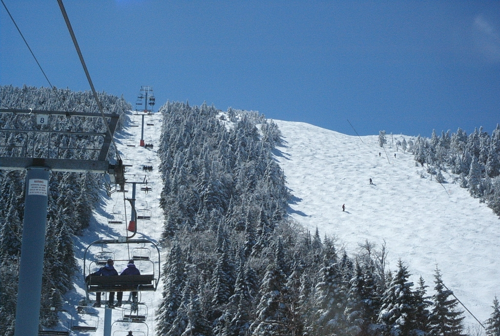 Mt. Ellen's FIS and Black Diamond runs in April 2006